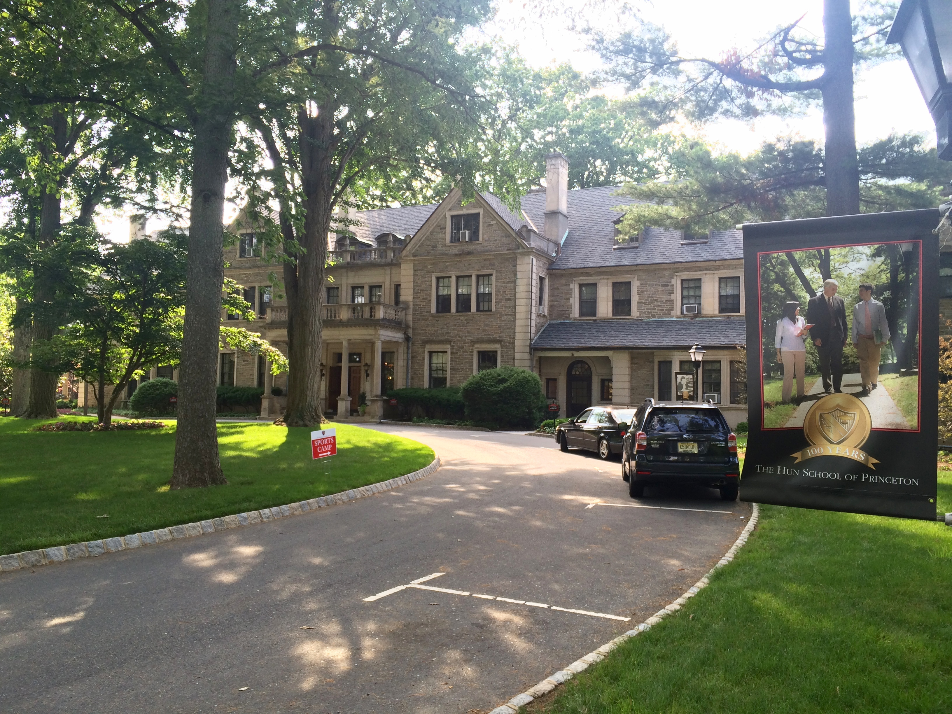 Edgerstoune, the administration building of the Hun School of Princeton in Princeton, New Jersey. The mansion was built in 1903 for Archibald D. Russell and was designed by William Hamilton Russell of the firm Clinton and Russell. It was at the center of a 273.7 acre estate and is a good example of English Tudor revival architecture.